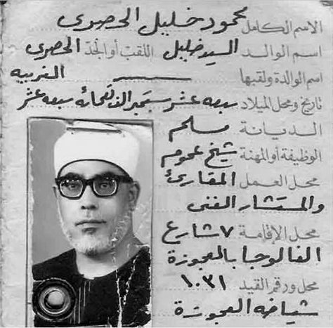 Mahmoud Khalil al- Husary the Sheikh of the Egyptian Quran Reciters